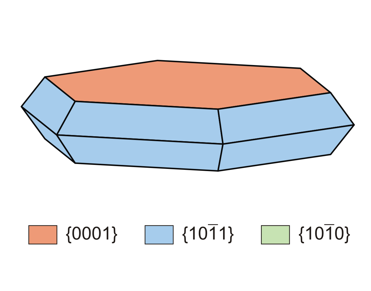 Despujolsite crystal, thick tabular